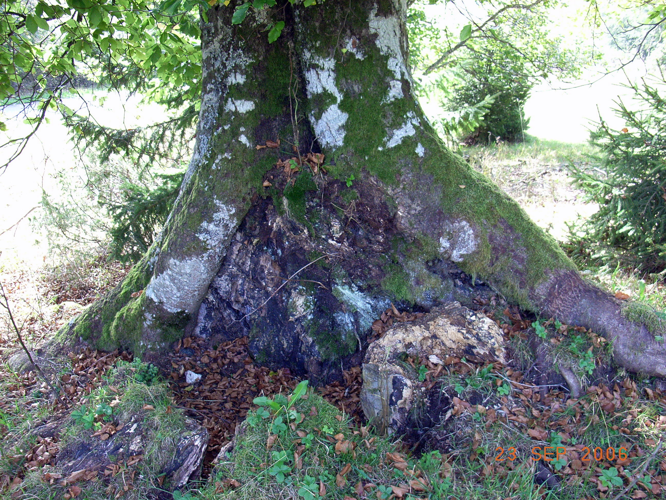 two trunks of F.sylvatica overgrowing a dead one and forming one tree